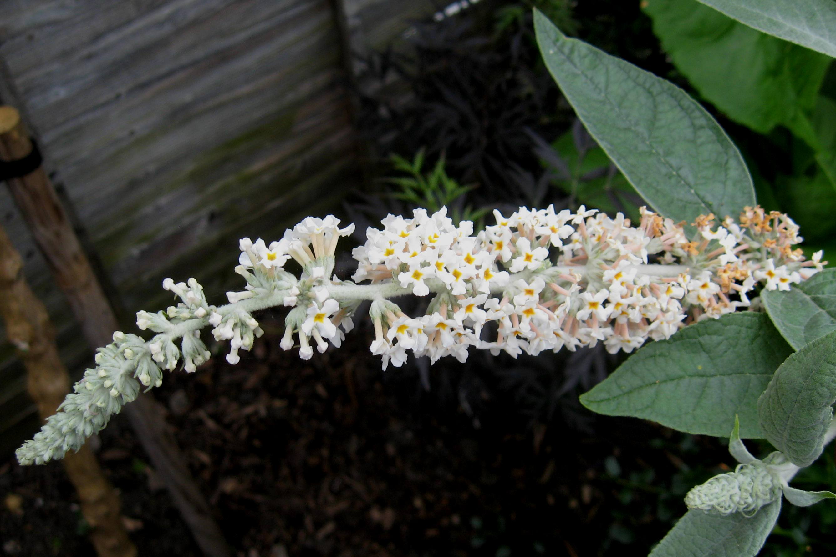 Photo of a panicle of Buddleja fallowiana var. alba taken at Portchester, England